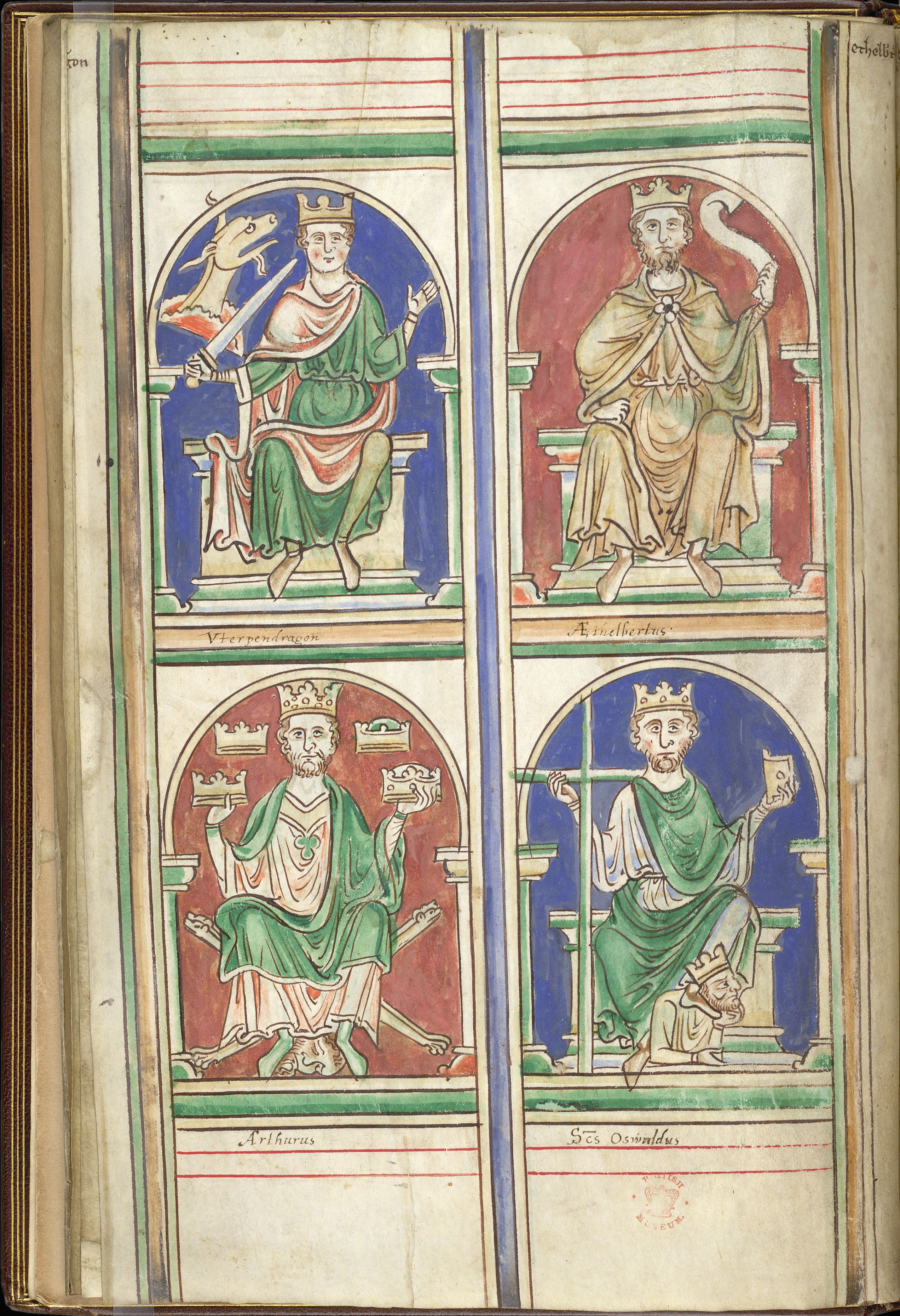 Illuminated manuscript showing Uther Pendragon, Aethelbert, King Arthur, and Oswald of Northumbria, from Epitome of Chronicles of Matthew Paris